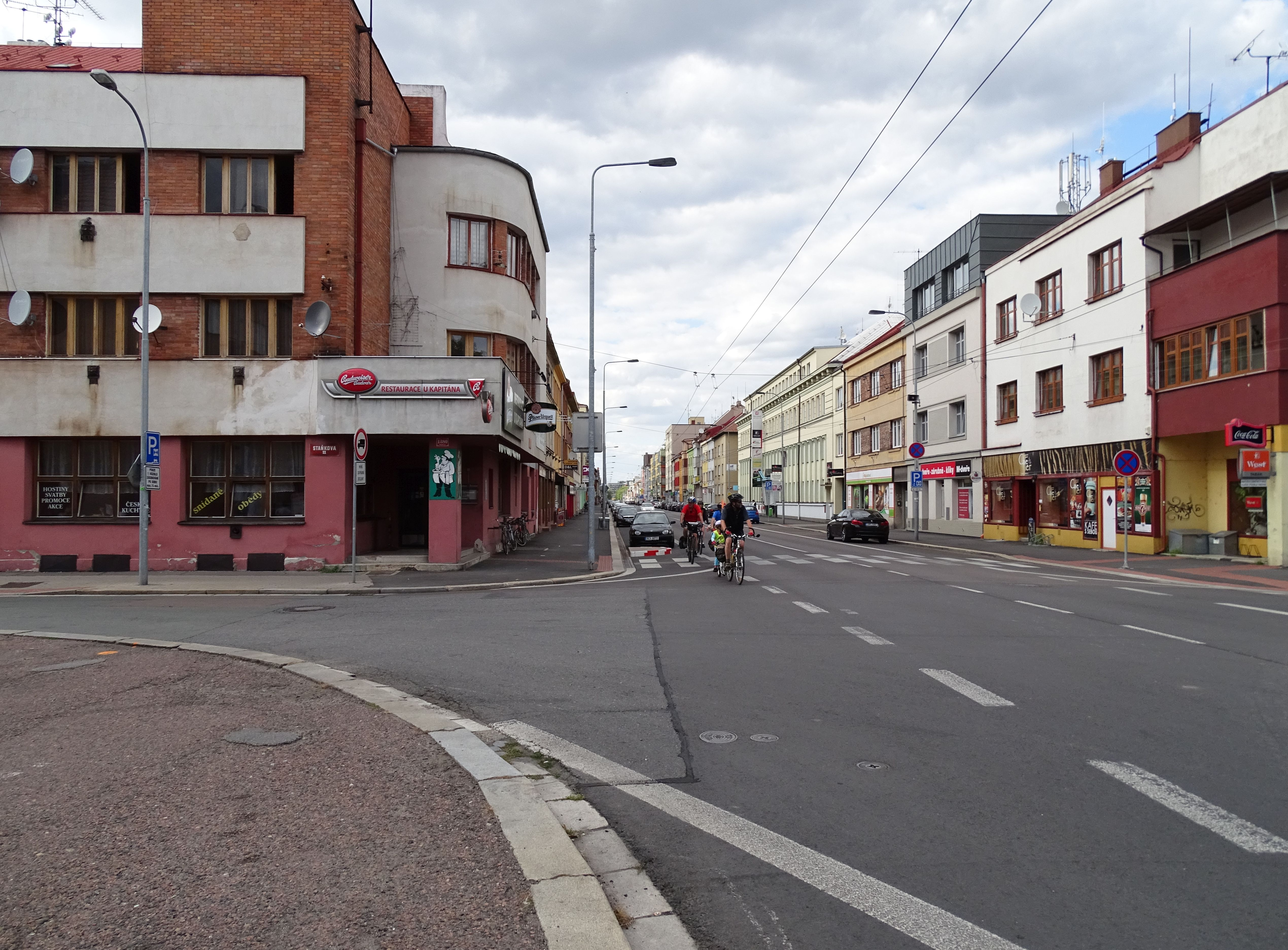 Pardubice V-Zelené Předměstí, Pardubice District, Pardubice Region, Czech Republic. Jana Palacha street, from Zborovské náměstí.